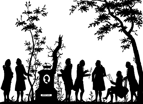 Group of members of the St. Petersburg Academy of Sciences, Silhouette by J.F. Anthing, 1784